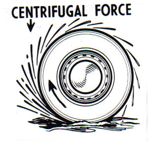 line art drawing of centrifugal.